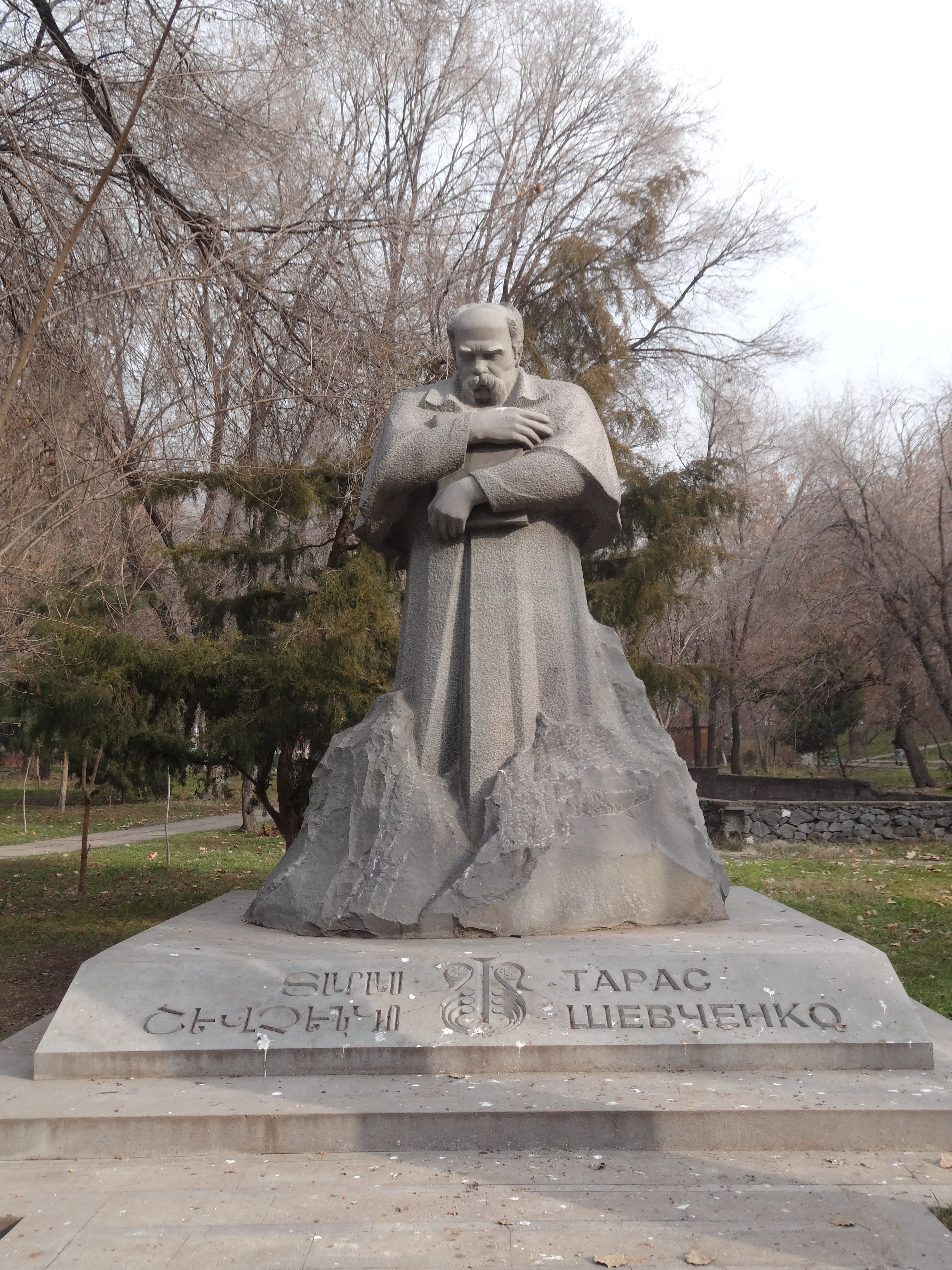 Taras Shevchenko monument in Yerevan, English